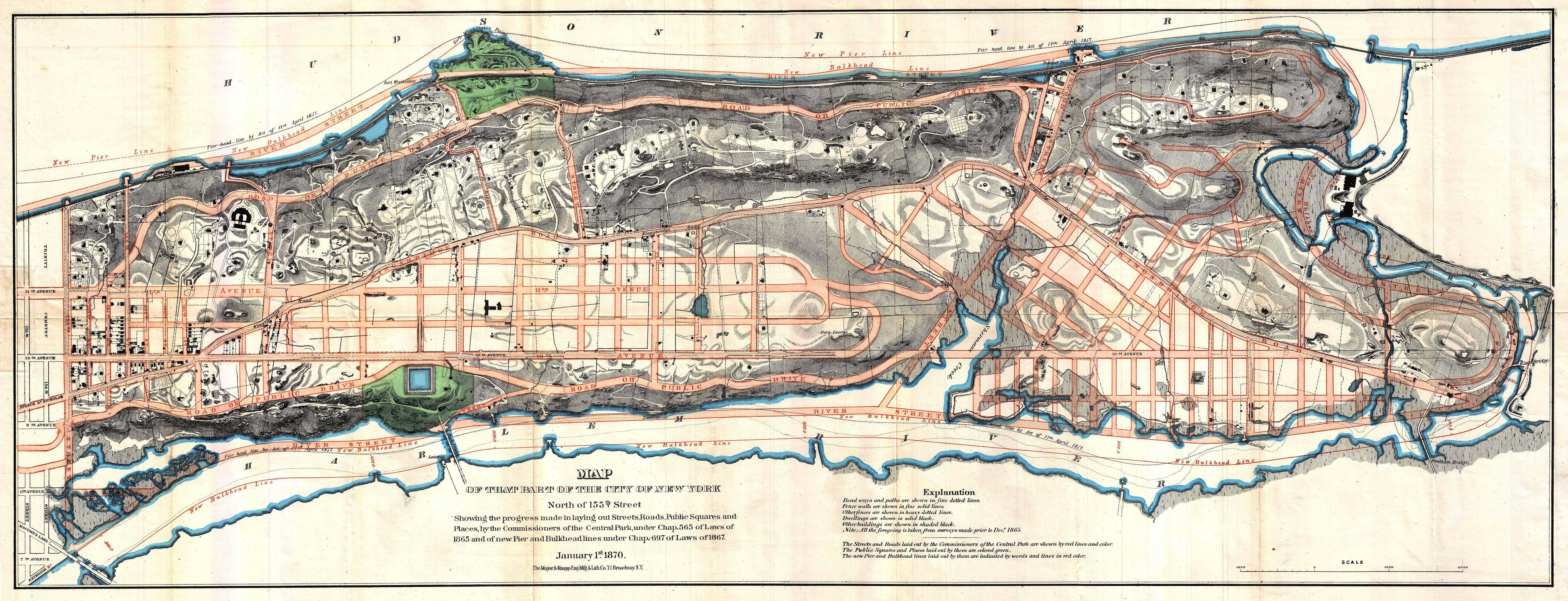 A rare and unusual map of upper Manhattan, New York City, prepared and printed for inclusion in the 1870 Thirteenth Annual Report of the Board of Commissioners of the Central Park. Depicts the island of Manhattan north of 155th street including the districts of Inwood, Harlem, and Washington Heights. The plan for much of Manhattan, south of 155th street, was originally laid out by John Randel in his 1811 Map of the City of New York or as it is otherwise known the “Commissioner’s Plan”. This ambitions project transformed nearly 12,000 acres of wilderness into a massive urban grid. Nonetheless, by 1860, New York City’s development had exceeded even Randel’s expectations. The Central Park Commission was granted the responsibility of laying out the systematic street gird and public areas of the undeveloped parts of Manhattan northwards of 155th street. Consequently the 1870 13th Annual Commissioner’s Report included this map which offers considerable detail regarding proposed street layouts, waterways, and public areas, both proposed and developed. Also depicts the suggested bulkhead development extending the shoreline along both the eastern and western parts of Manhattan Island. When this map was made much of this region remained undeveloped farmland and semi-suburban properties, as is reflected by some of the topography and buildings indicated, especially in the western part of the city. Numerous individual buildings are sketched in if not specifically described. Also apparent is the newly developed 11th Avenue, a critical artery connecting lower Manhattan with the Harlem and Hudson waterways in the northern part of the city. A rare and important map regarding the development of modern New York City.